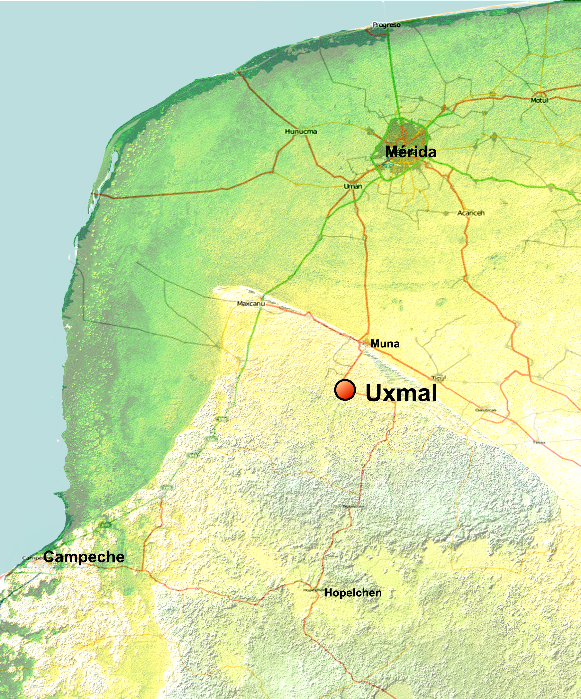 Uxmal situation